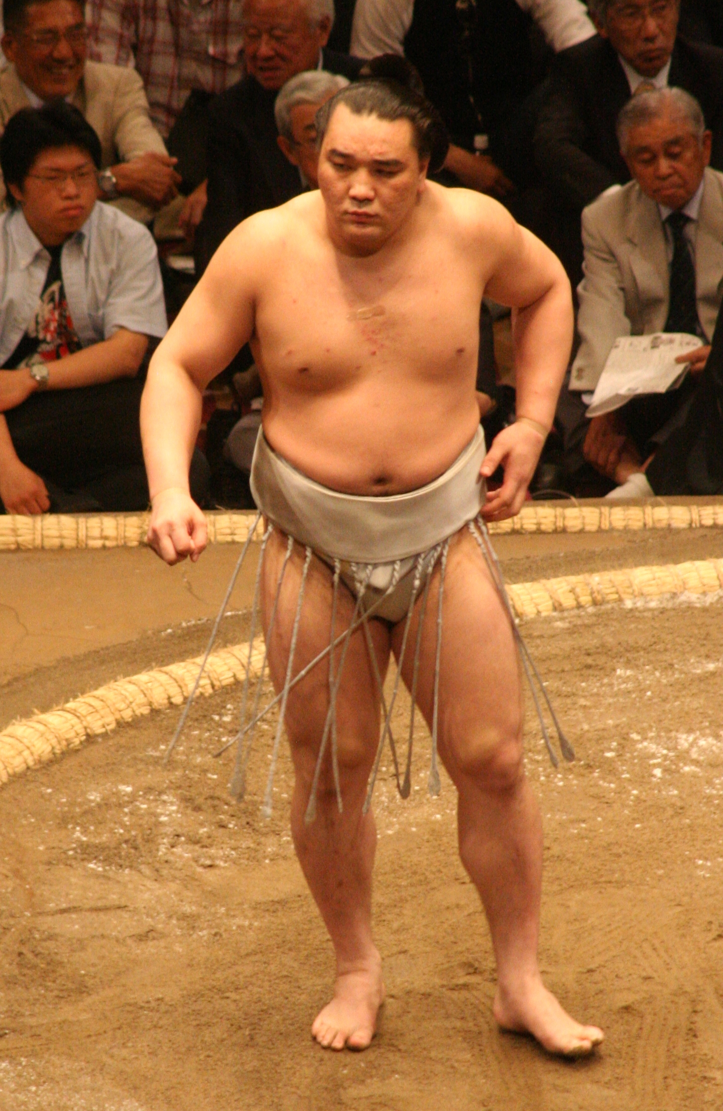 First day of 2009 May Sumo Tournament in Tokyo, Japan - Harumafuji